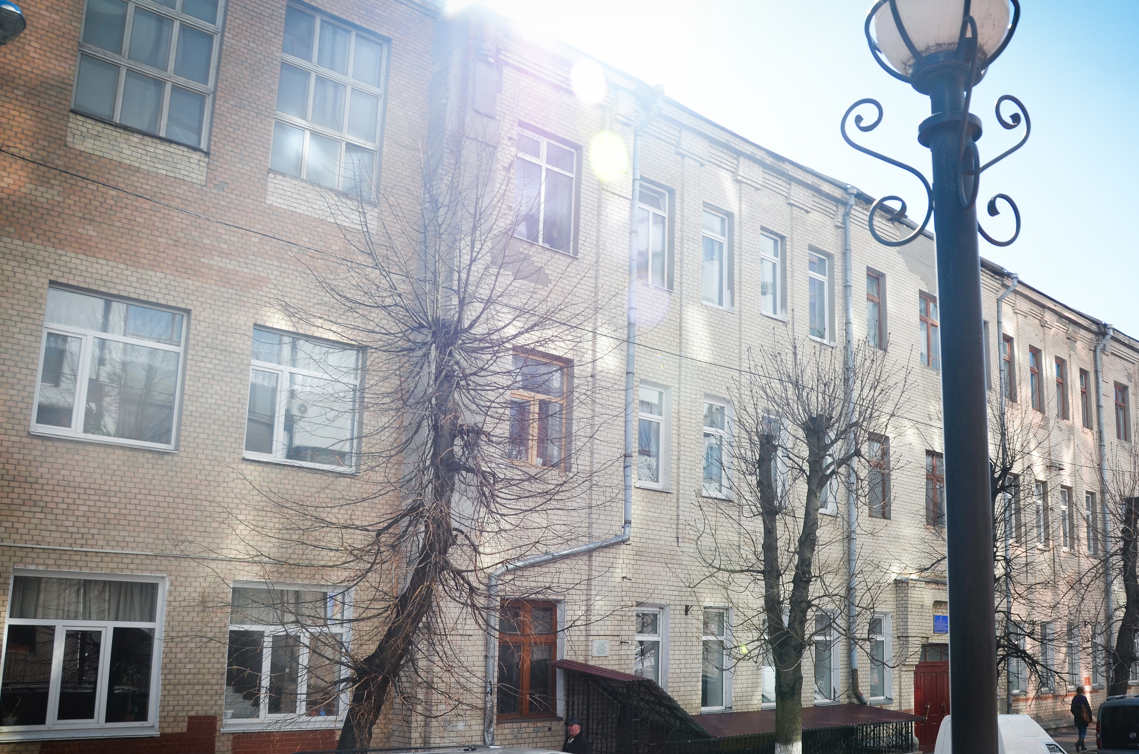 Значні зміни відбулись з фасадом будинку по вулиці Володимирській, 51